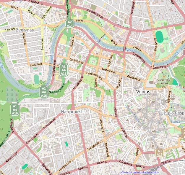 Vilnius Center as generated in OpenStreetMap (Mapnik layer) This map may be incomplete, and may contain errors. Don't rely solely on it for navigation.